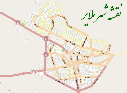 Malayer Map